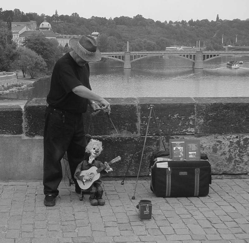 Marionettiste in Prague on Charles Bridge. Picture taken when i was traveling in Eastern-Europe. More pictures of Prague at